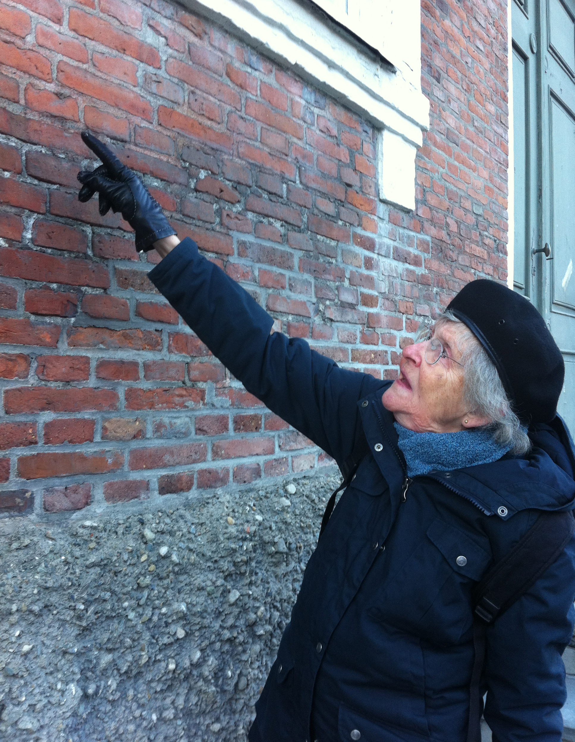 The Norwegian architect and architectural historian Kerstin Gjesdahl Noach outside the Harsdorff building at the Trondheim Cathedral School, Trondheim, Norway